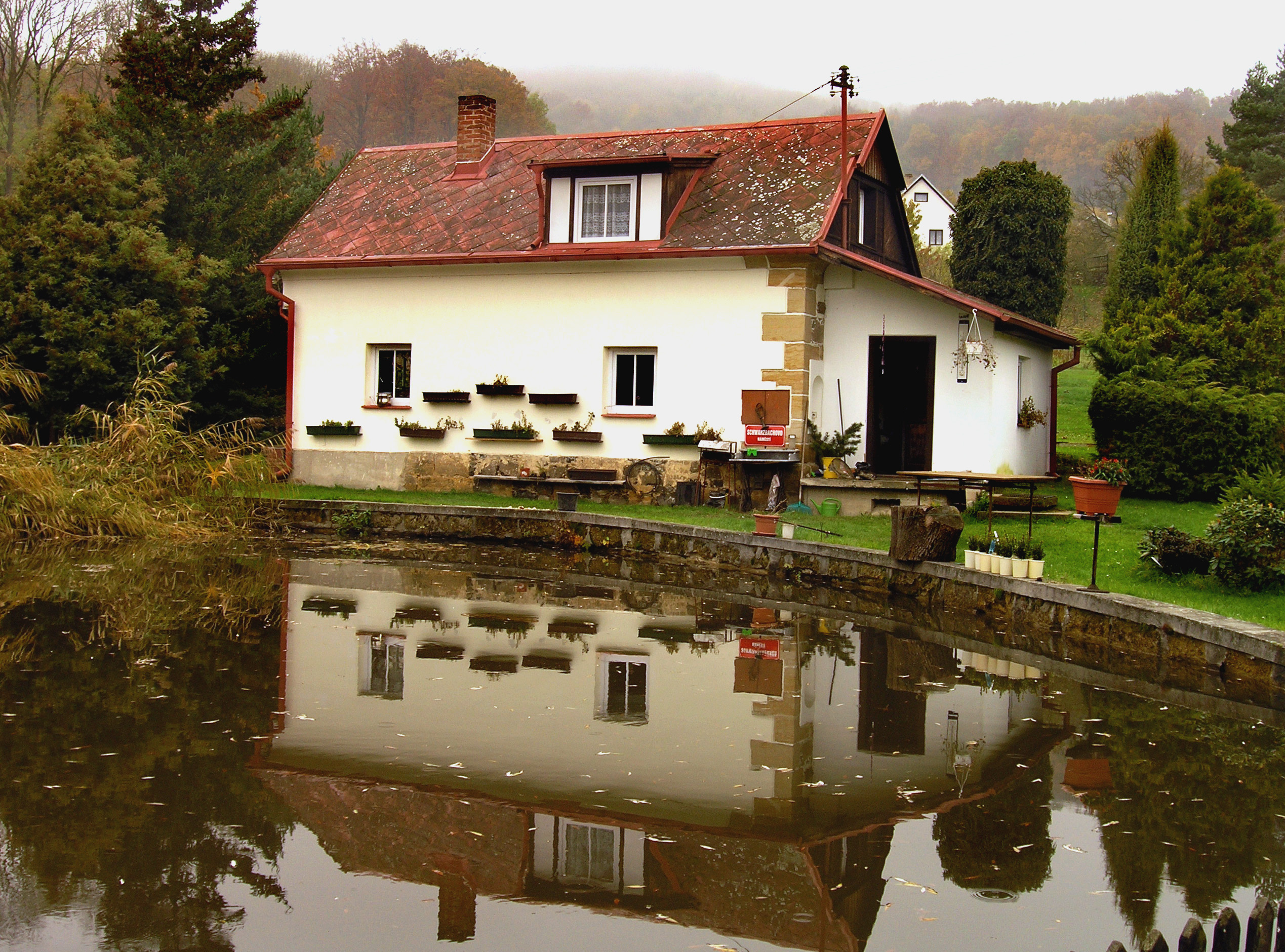 Small common pond in Bořetín, part of Stružnice village, Czech Republic